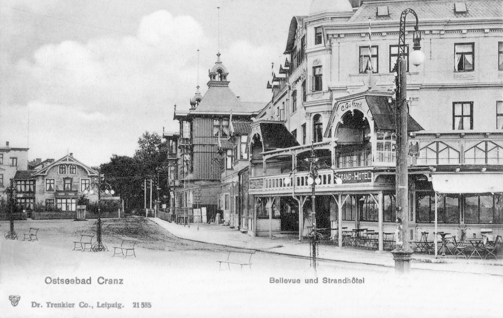 Zelenogradsk (before 1945 Cranz) Cranz